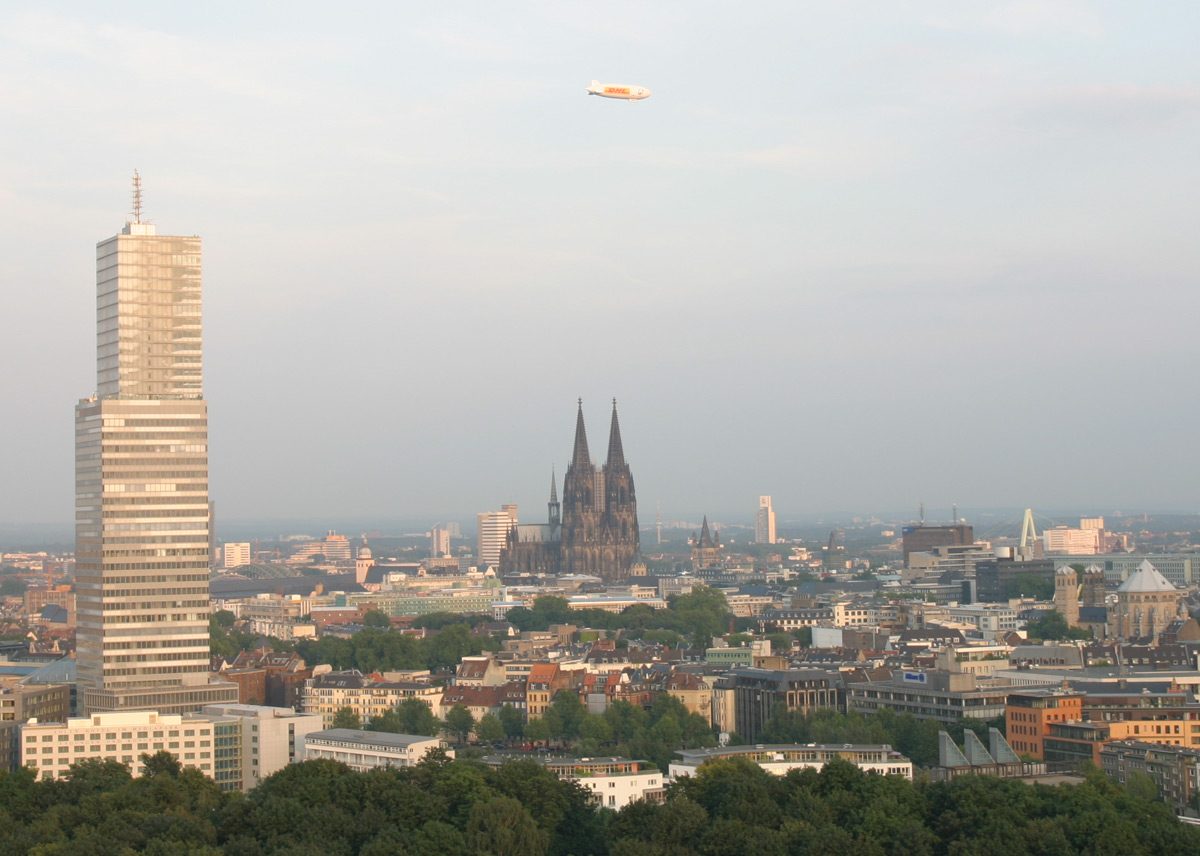 A view of the Cologne inner city, including the Dom, the Kölnturm and a Zeppelin NT over the city (on August 18th,2005) because the Pope was in Cologne on that day. Picture taken by User:Mutante on Aug,18th,2005 with Camera Canon EOS10D